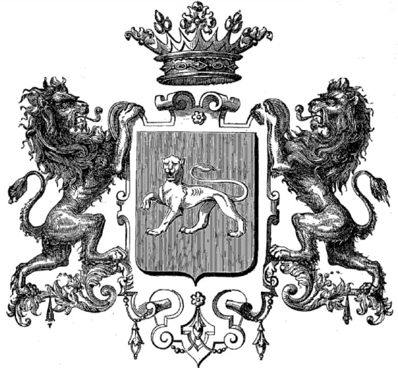 Coat of arms of the French family de Bréhan (or de Brehan, de Brehand, de Brehant). From the book "De Brehan - Bretagne - Marquis de Brehan, comtes de Mauron et de Plélo...", Paris, Chaix, 1883.